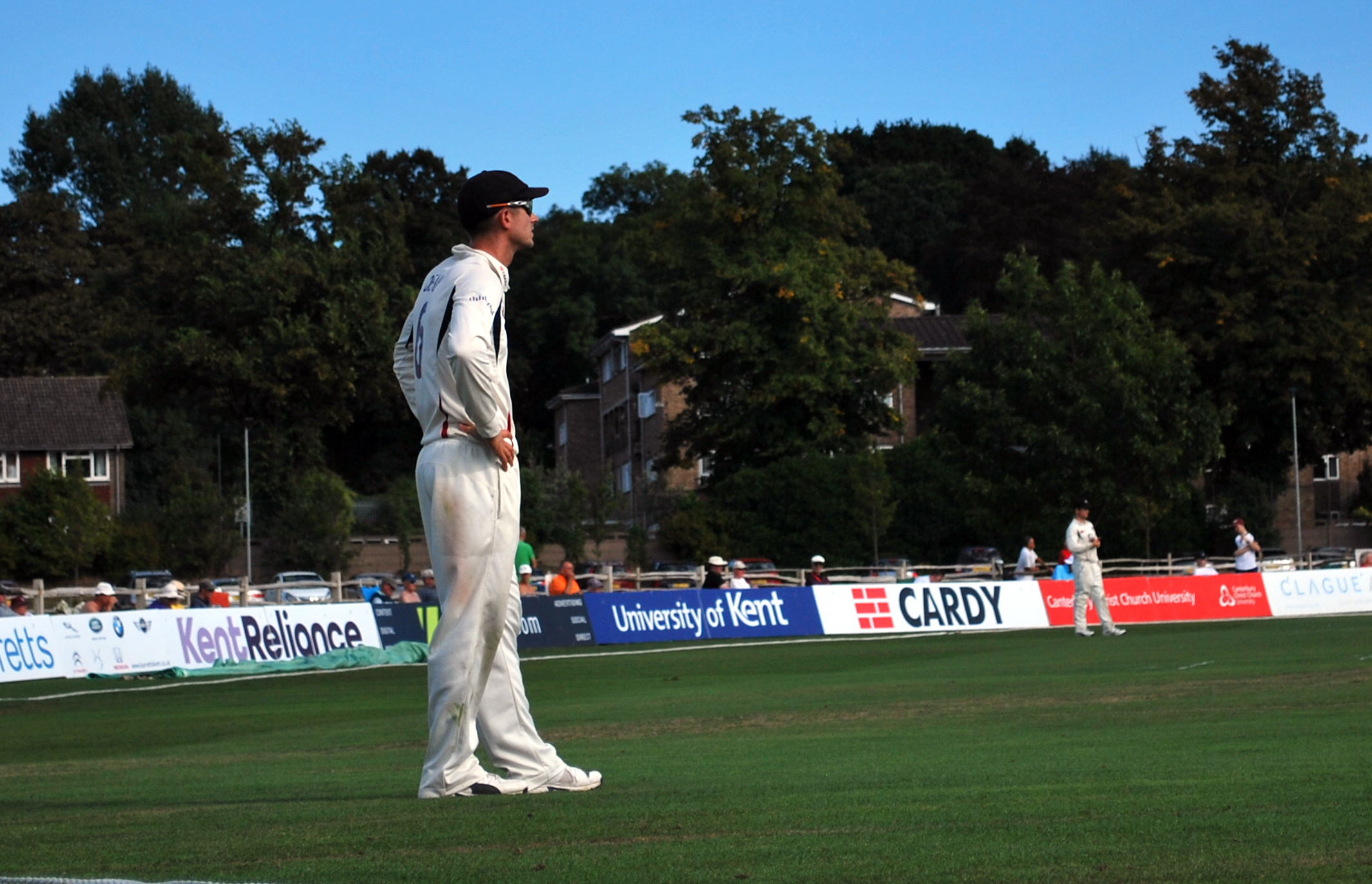 Joe Denly fielding at the Kent County Cricket Ground, Beckenham in September 2016